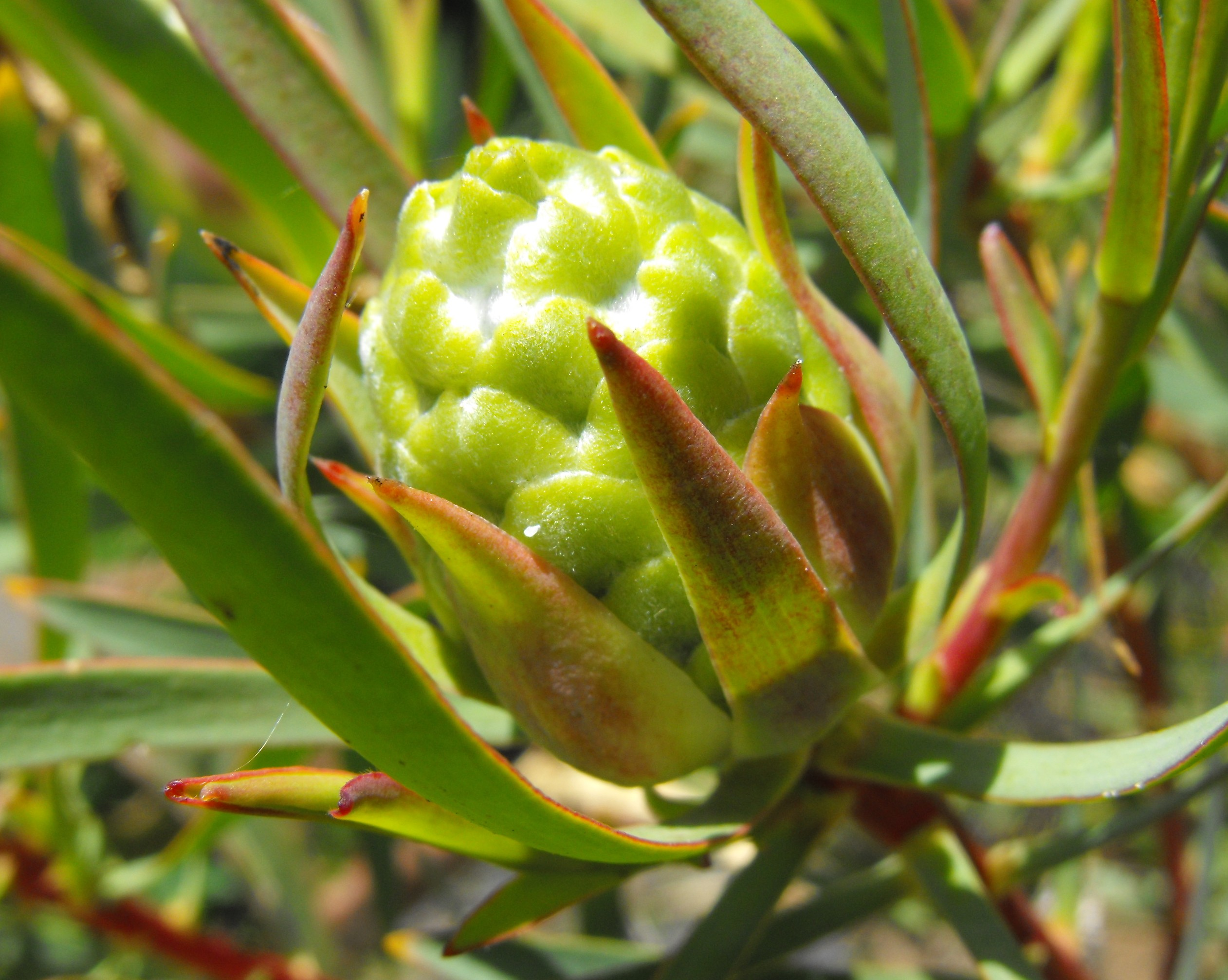 Leucadendron salicifolium at Quail Botanical Gardens in Encinitas, California, USA. Identified by sign.